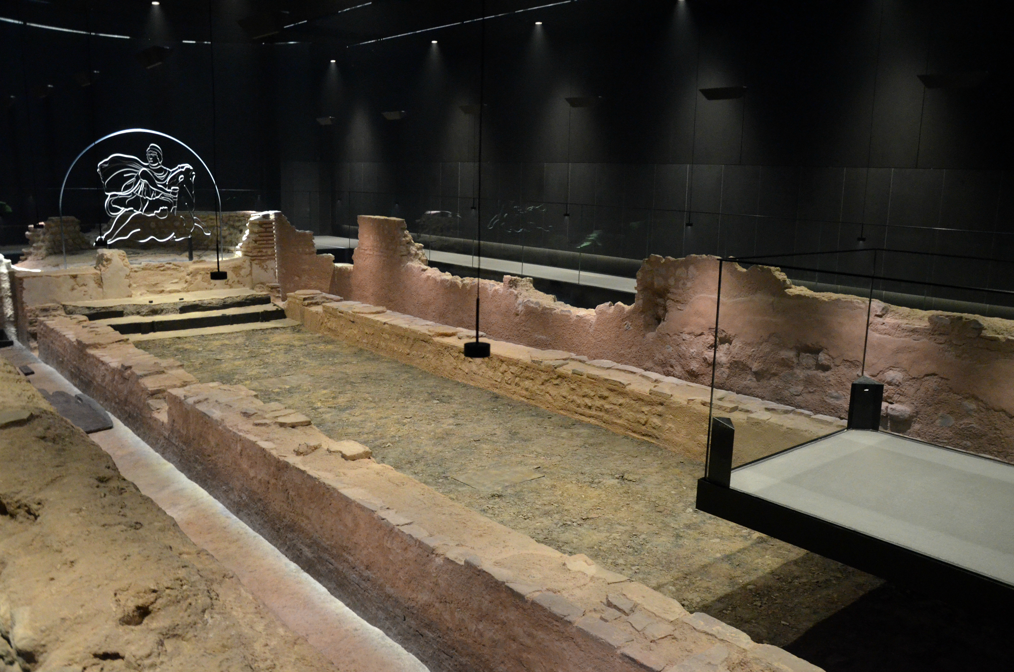 London Mithraeum, Bloomberg’s European headquarters, London